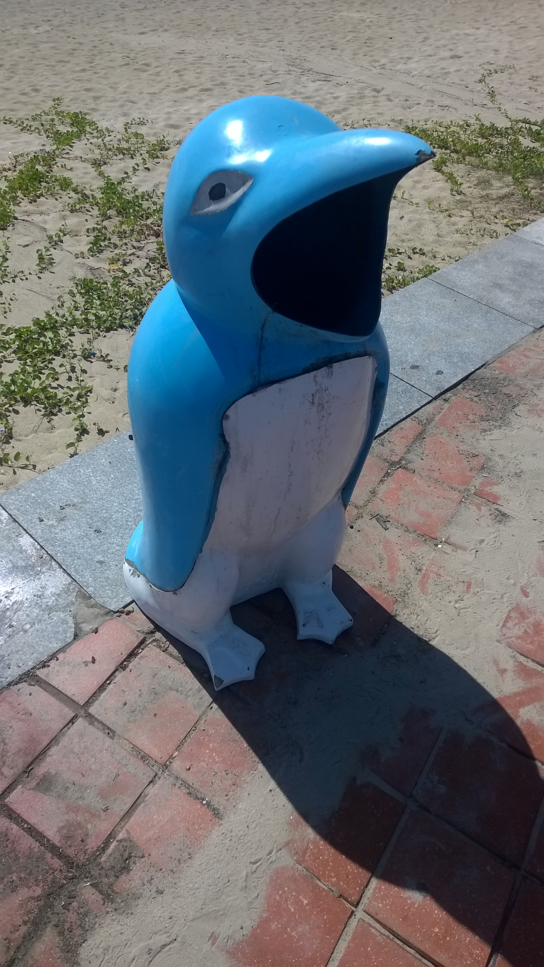 Blue Penguin rubbish bin in Da Nang in 2015.